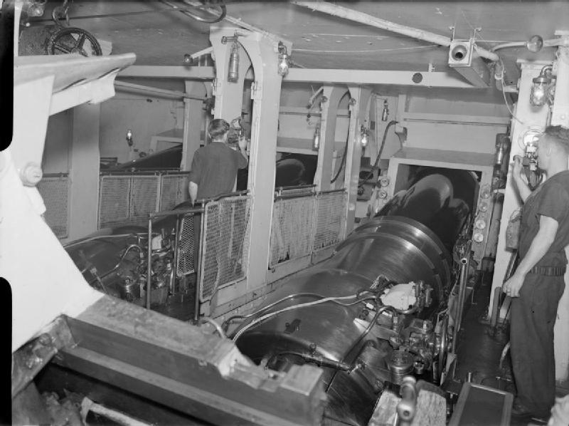 IWM caption : "Inside the gunhouse of one of the three 16 inch triple Mark I mounting, housing three 16-inch Mark I guns on board HMS RODNEY."